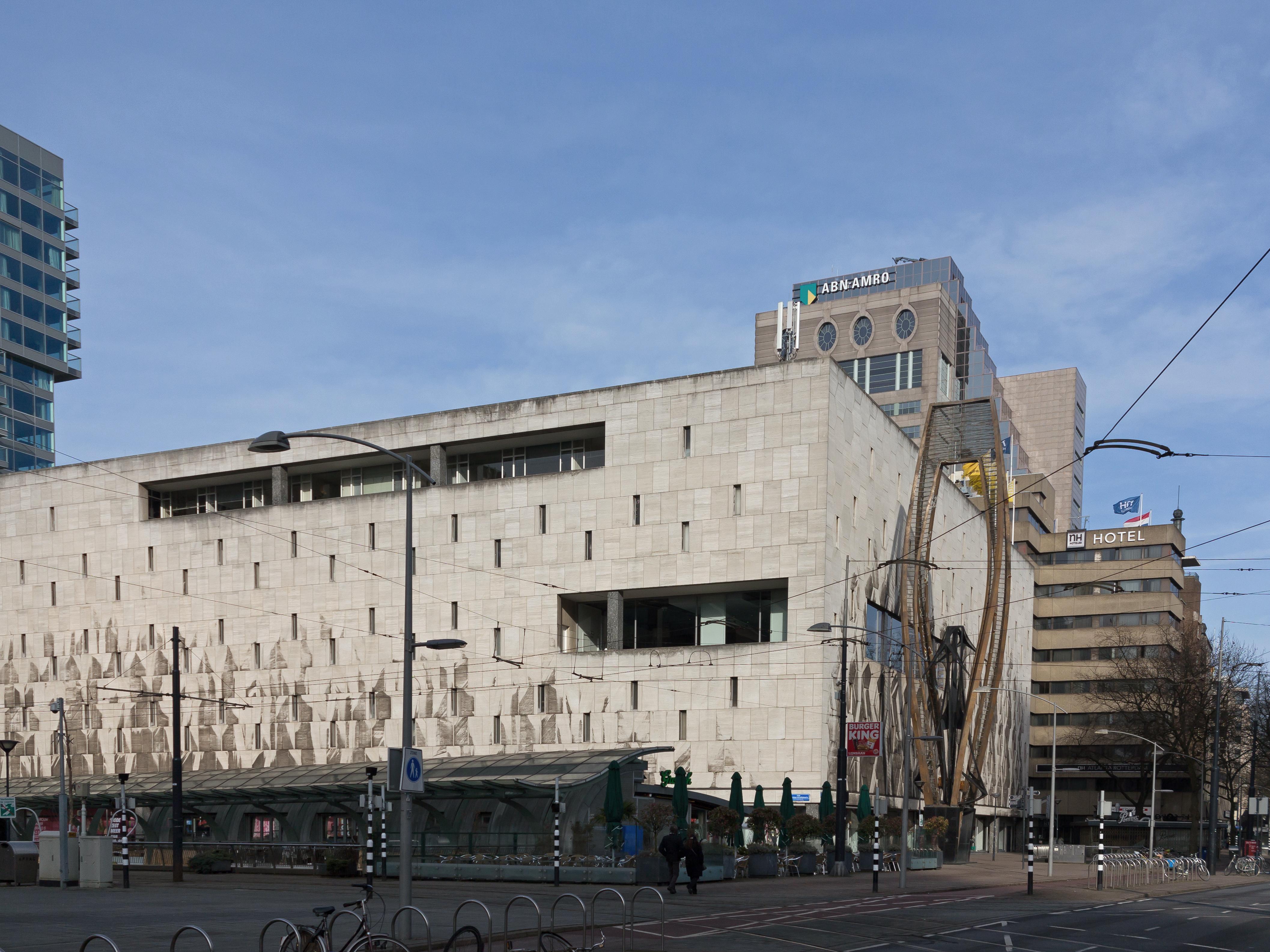 Rotterdam, high-end department store: de Bijenkorf